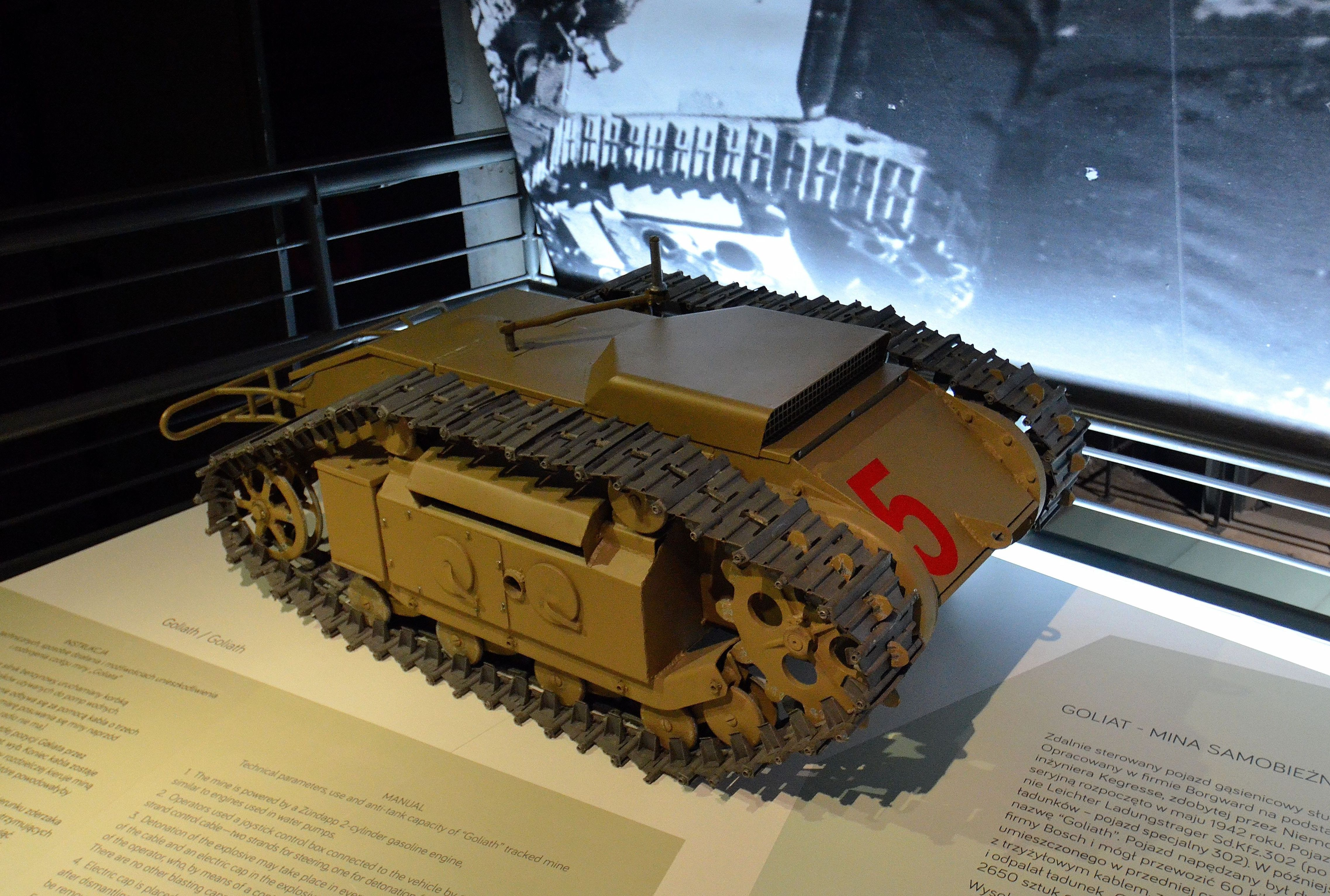 Replica of Goliath tracked mine in the Warsaw Uprising Museum